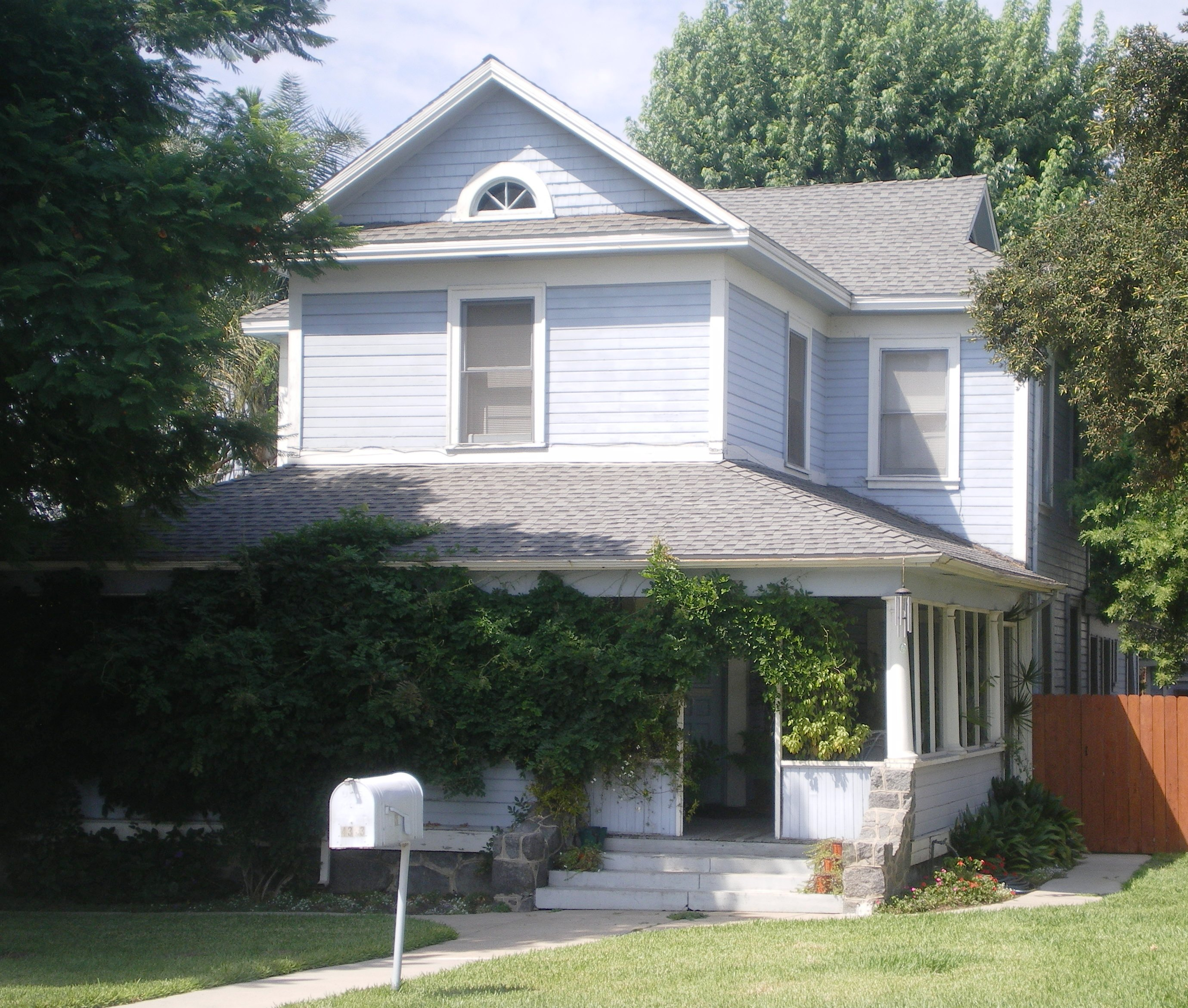 Charles E. Straight House, 4333 Emerald Ave., La Verne, California